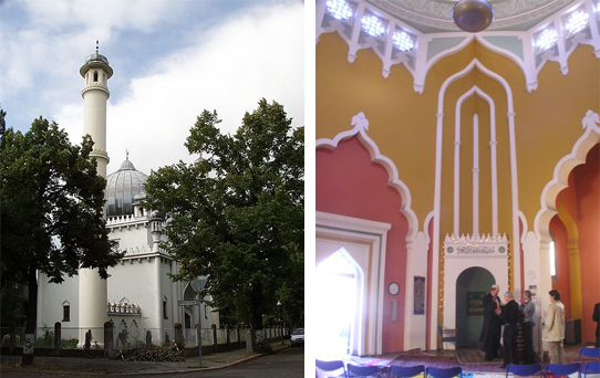 Interior and exterior of Moschee Wilmersdorf, Berlin.